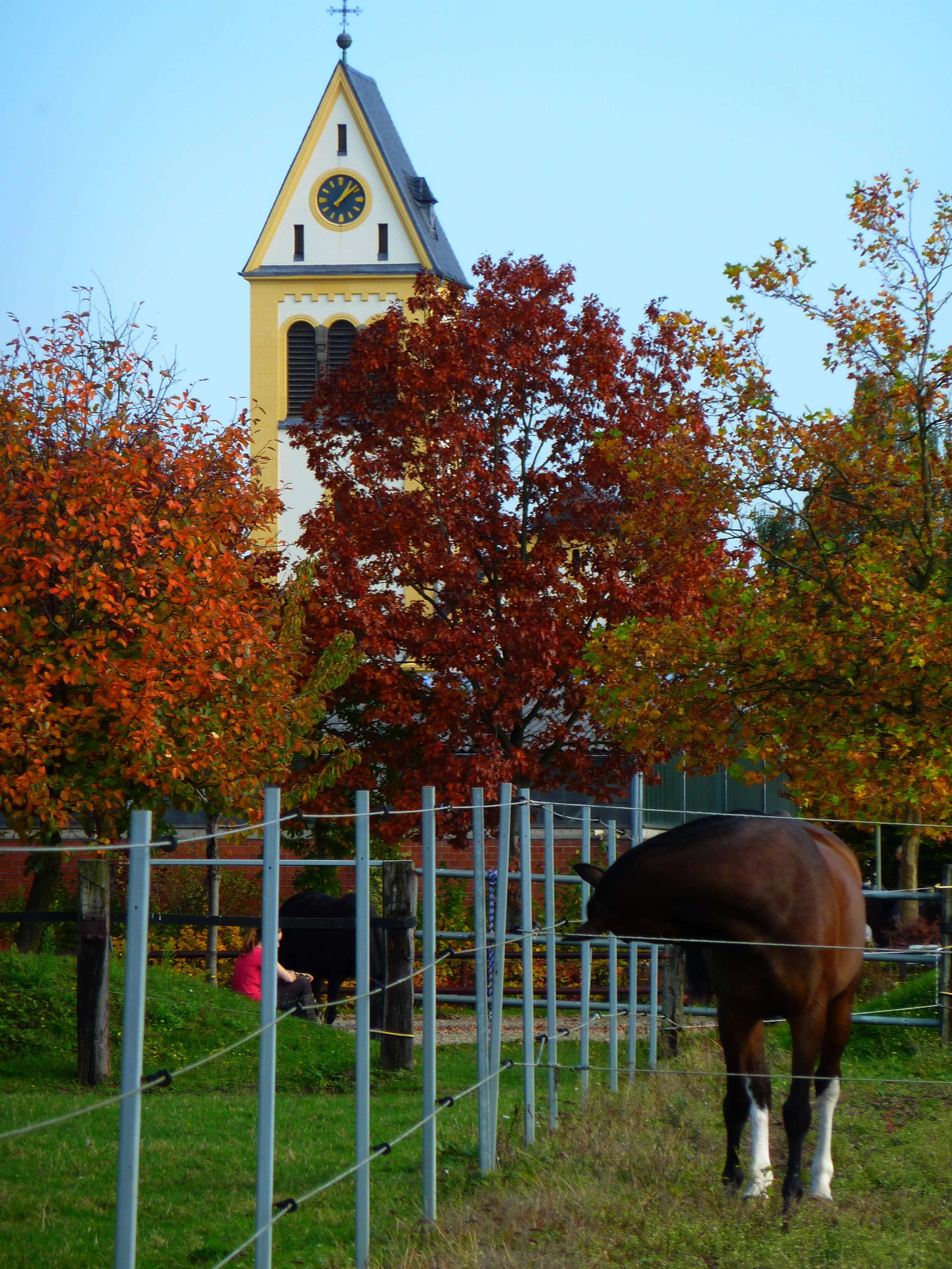 Langst-Kierst Meerbusch